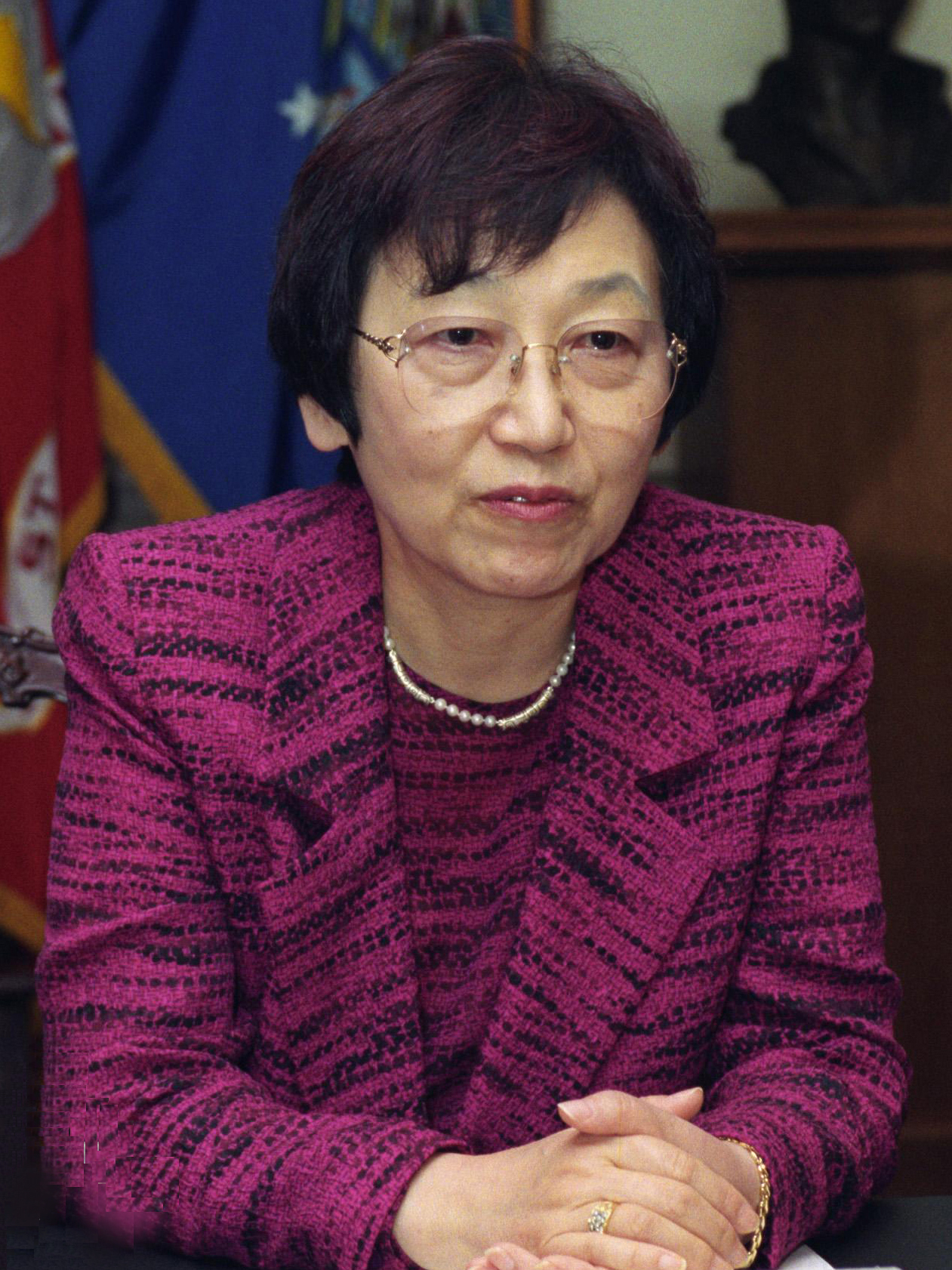 Yoriko Kawaguchi (川口順子), the Minister of Foreign Affairs of Japan, listens during a meeting with the Honorable Donald H. Rumsfeld (not shown), U.S. Secretary of Defense, at the Pentagon, Washington, D.C.